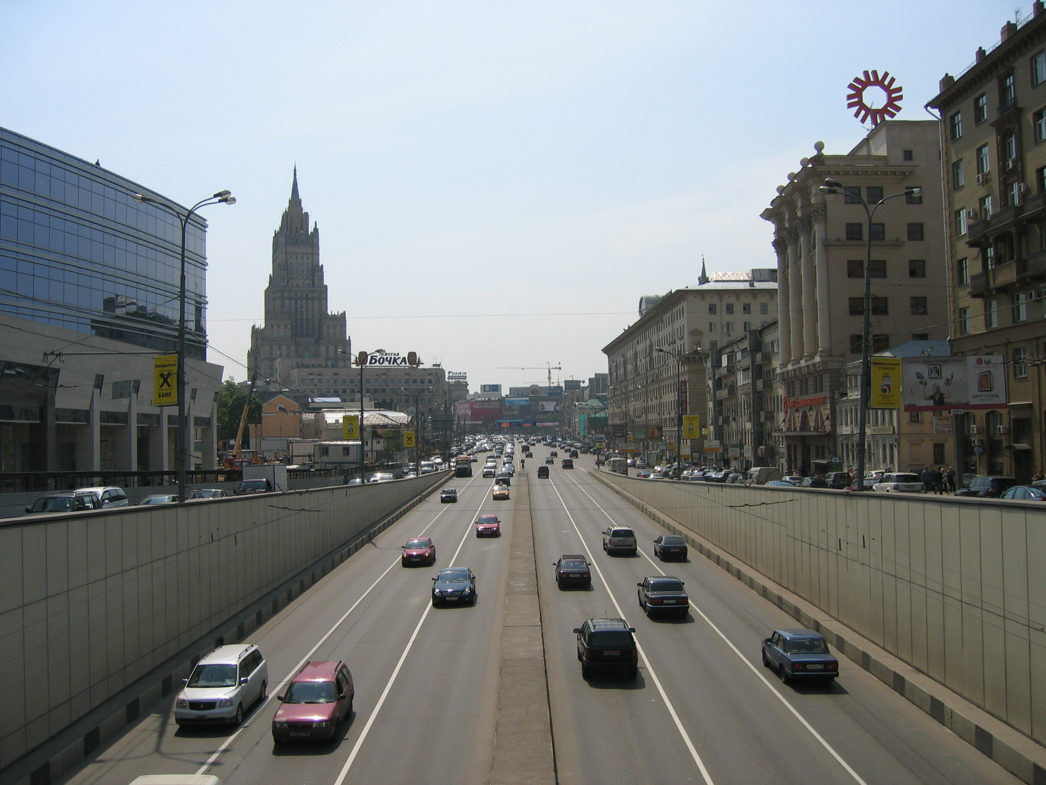 View of Moscow's Garden Ring